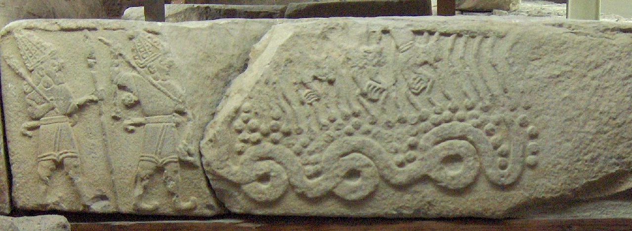 Depiction of the myth of the Sky God killing the dragon Illuyankas ; Neo-Hittites; 850-800 BC; Limestone orthostat at the Lions Gate at Malitiya (Arslantepe, 38° 22' 53" N 38° 21' 36" E), now at the Museum of Anatolian Civilizations, Ankara, Turkey.. Malitiya (near modern Malatya) became a major site as a Late Hittite city state and retained Hittite traditions long after the fall of the Empire.